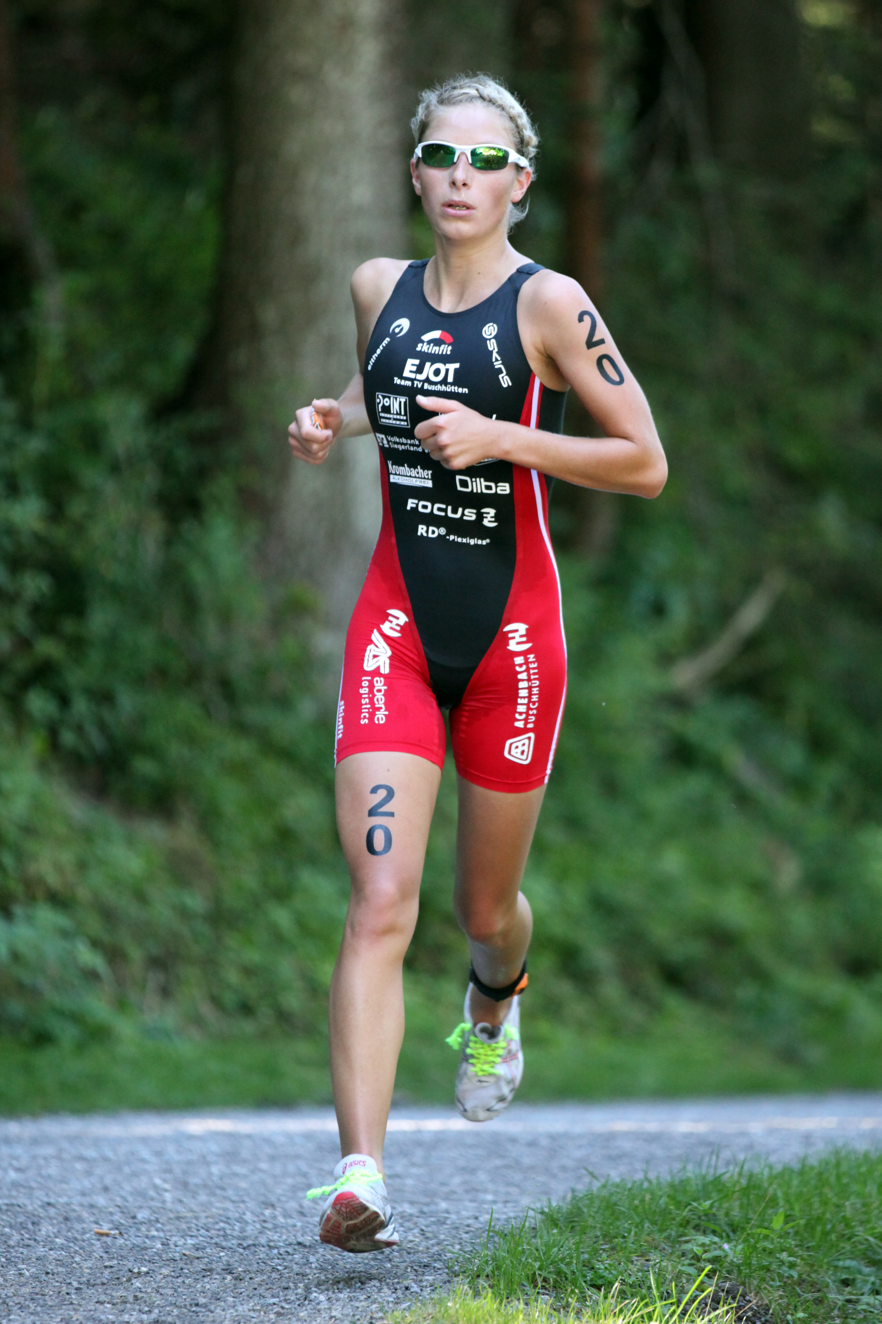 Theresa Baumgärtel at the Schliersee Triathlon, the Grand Final of the German Bundesliga.